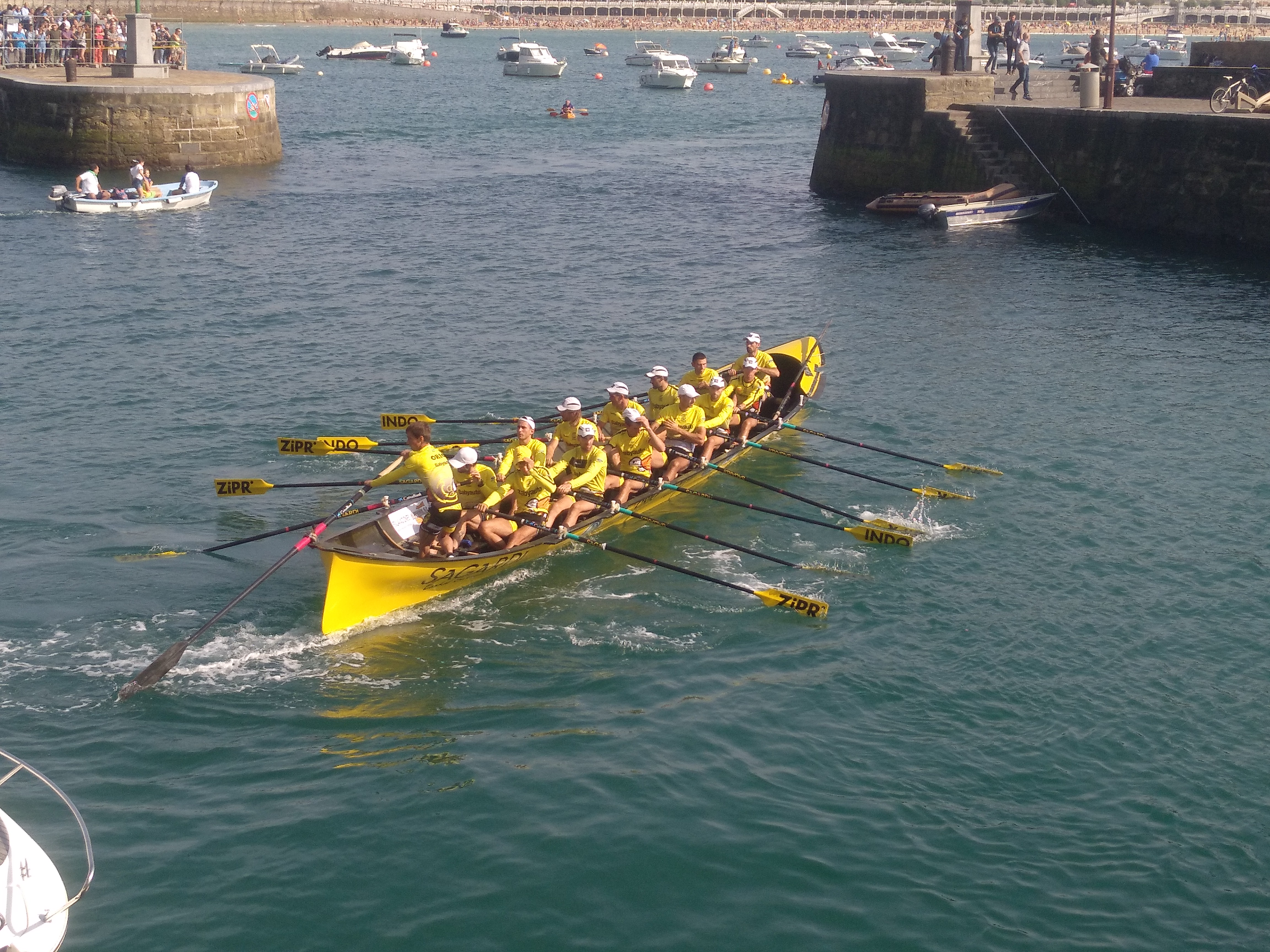 Orio Arraunketa Elkartea, Flag of La Concha, 2018